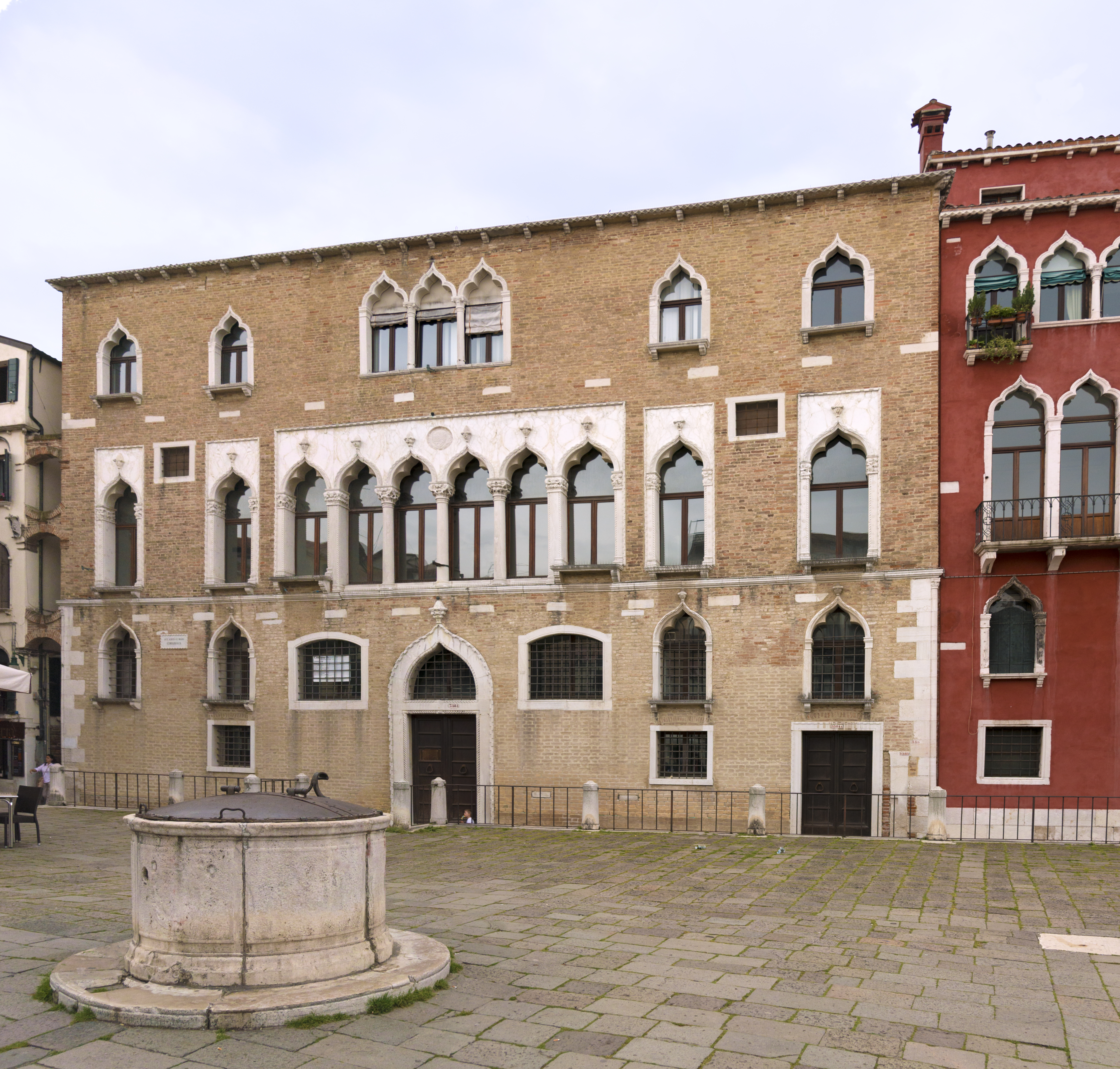 Palazzo Duodo Venice. Facade on Campo Sant’Angello.